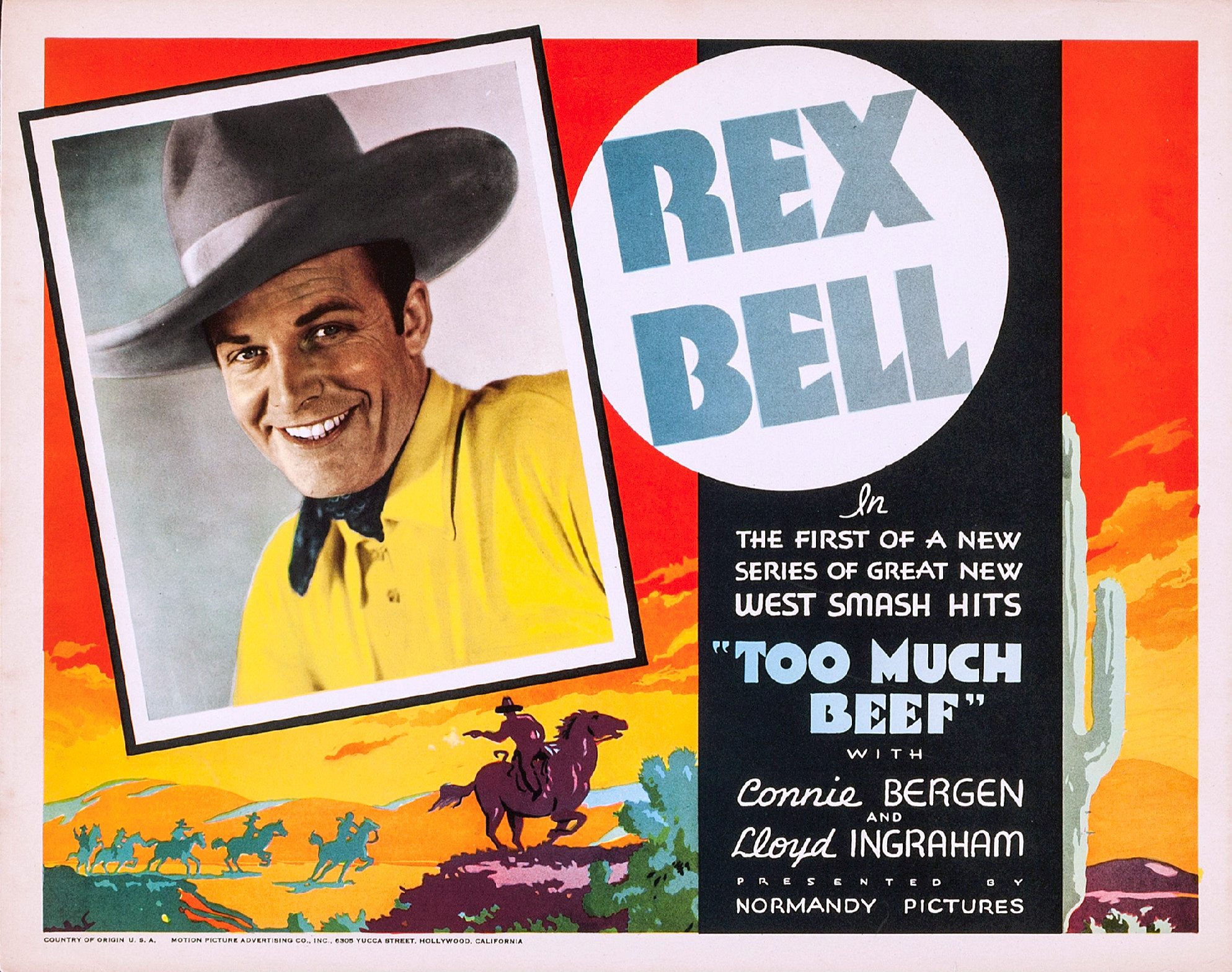 Lobby card for the 1936 film Too Much Beef with Rex Bell. The item has no copyright markings on it as can be seen in the links above. At bottom left is Country of origin USA. Motion Picture Advertising Co., Inc. 6305 Yucca Street, Hollywood California.